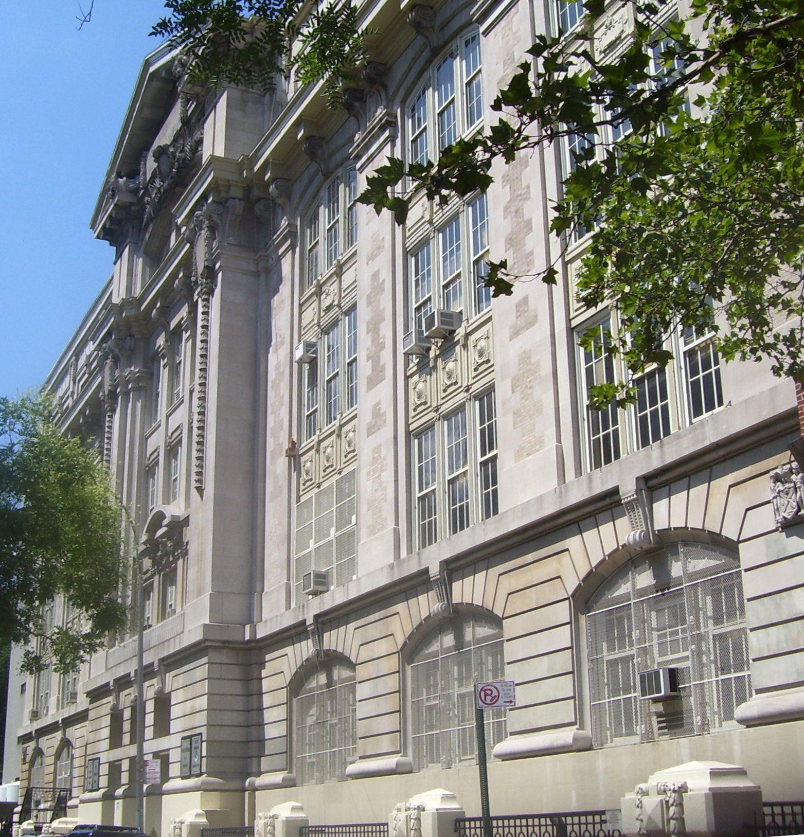 Old Stuyvesant Campus at 345 East 15th Street between First and Second Avenues in Manhattan, New York City. Formerly the home of Stuyvesant High School, since 2008 the building houses the Institute for Collaborative Education, the High School for Health Professions and Human Services and P.S. 226